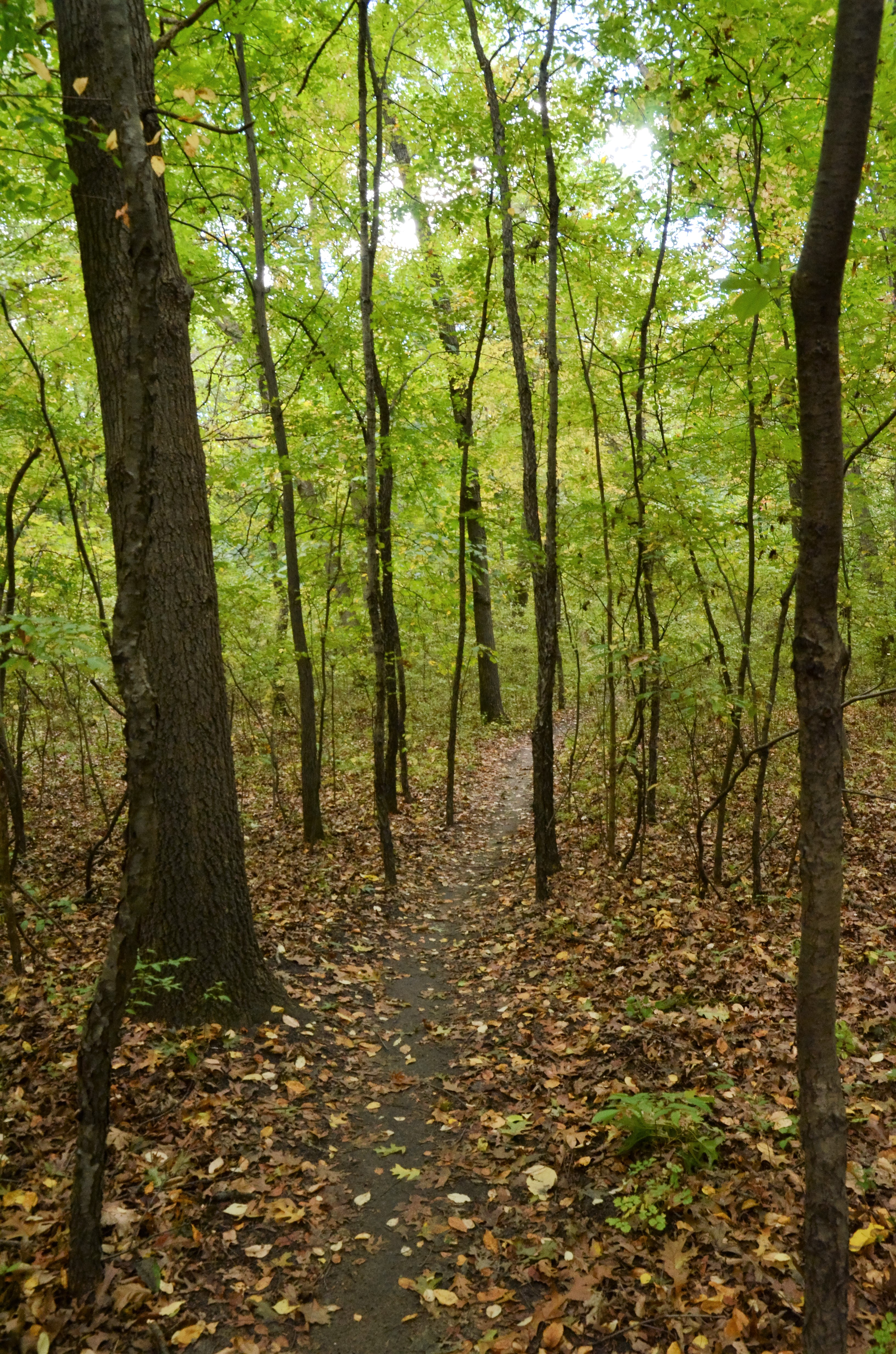 Part of the Ojibway Prairie Complex in Windsor, Ontario. "one of the finest stands of black oak in Southwestern Ontario."